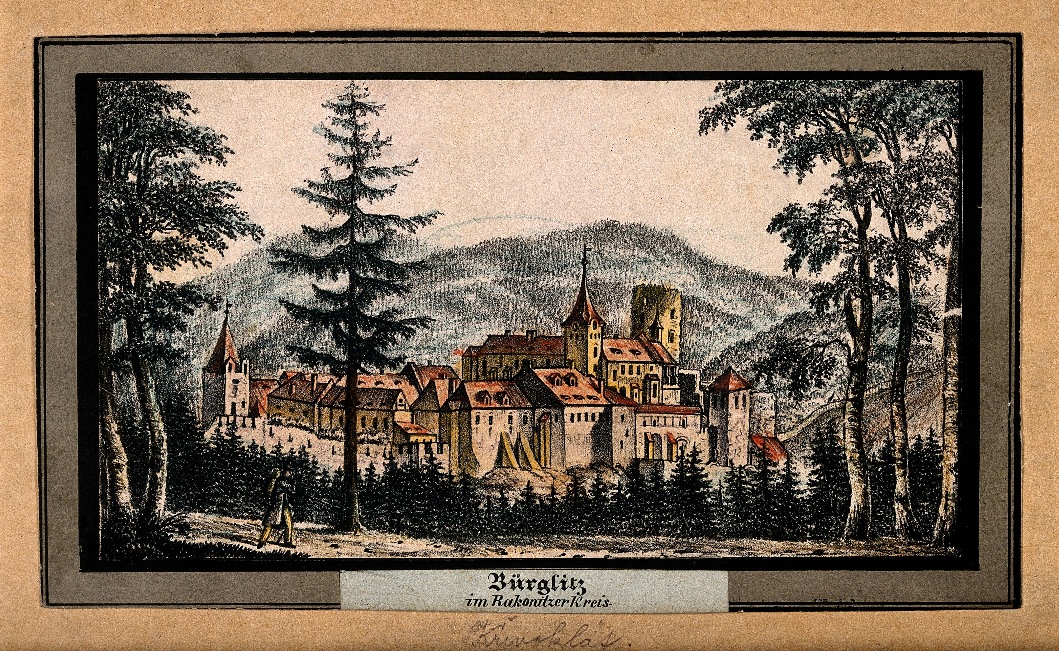 Panoramic view of Bürglitz castle, Prague, Czech republic. Coloured lithograph. Iconographic Collections Keywords: Edward Kelley